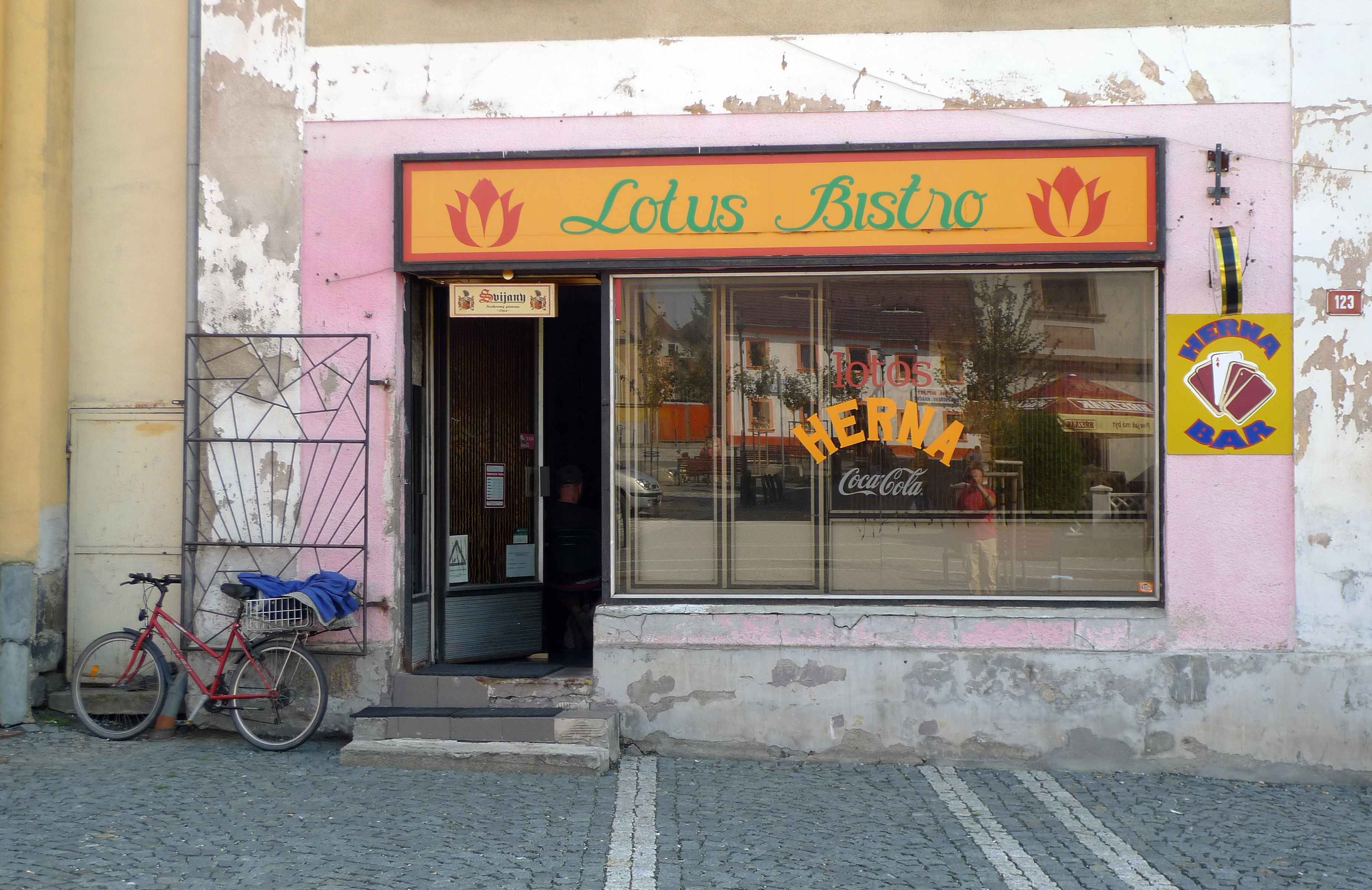 Amusement arcade in Hrádek nad Nisou, Czech Republic